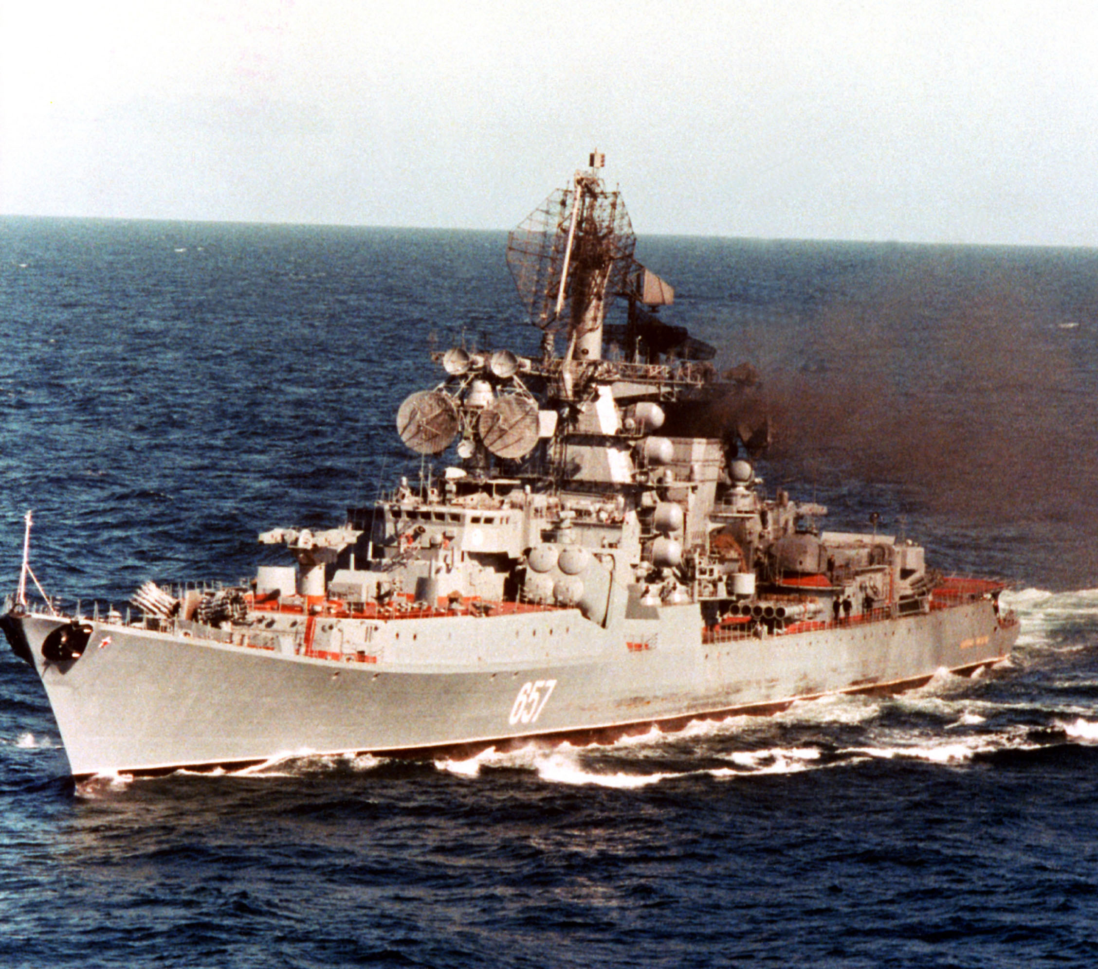 A port bow view of a Soviet Kara class guided missile cruiser underway.